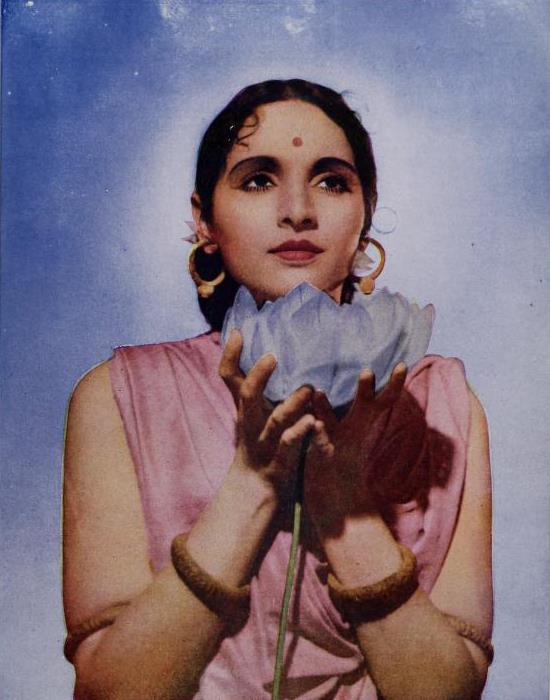 Shobhana Samarth as Seeta in Bharat Milap (1942)